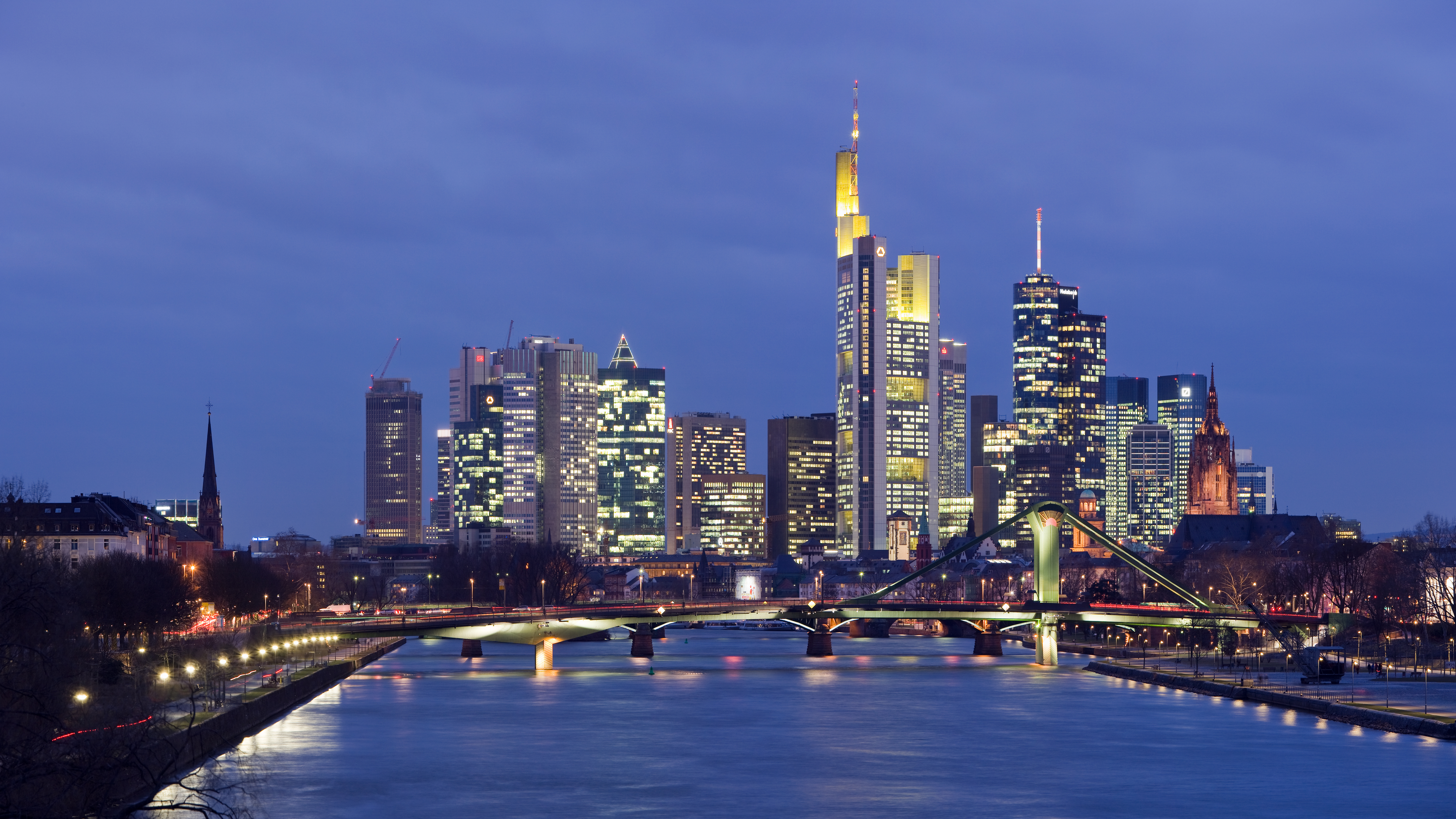 Frankfurt on the Main: Panorama of the city as seen from the Deutschherrnbruecke (Teutonic Knights Bridge) in the early evening